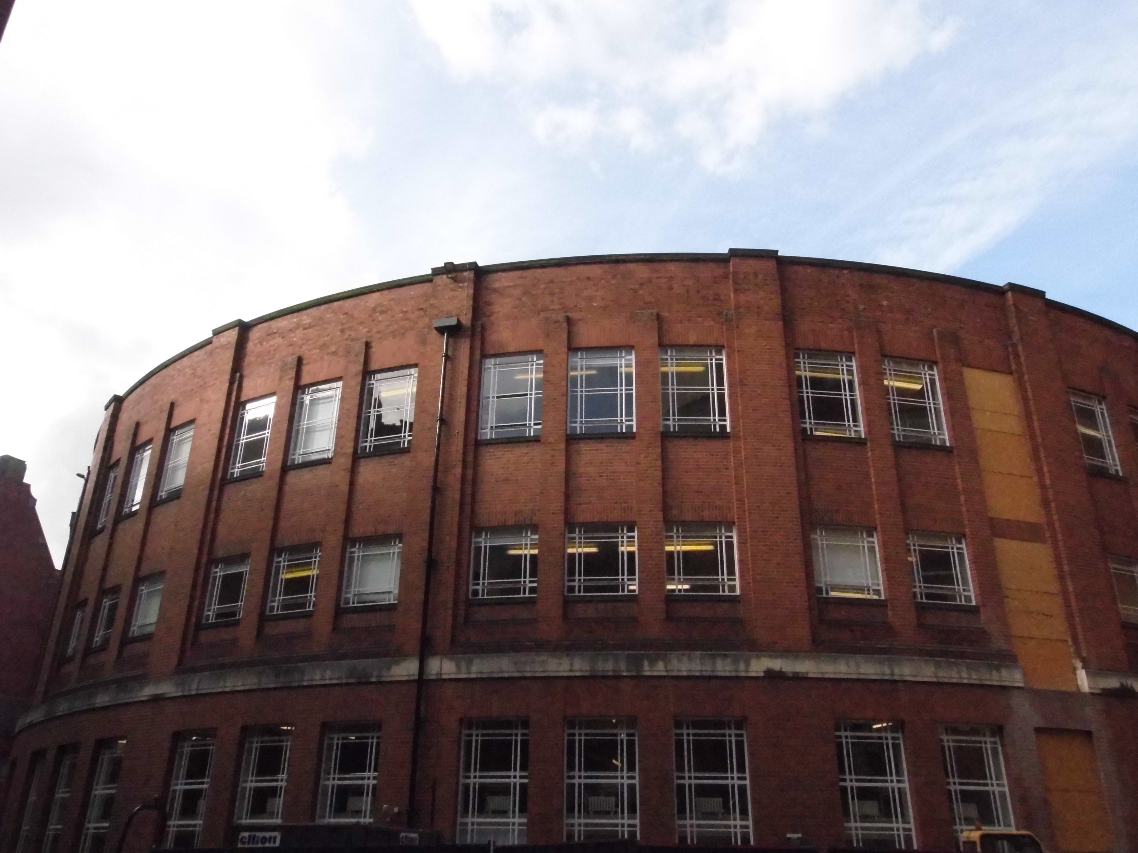 Brotherton Library Wikidata has entry Q4975734 with data related to this item.